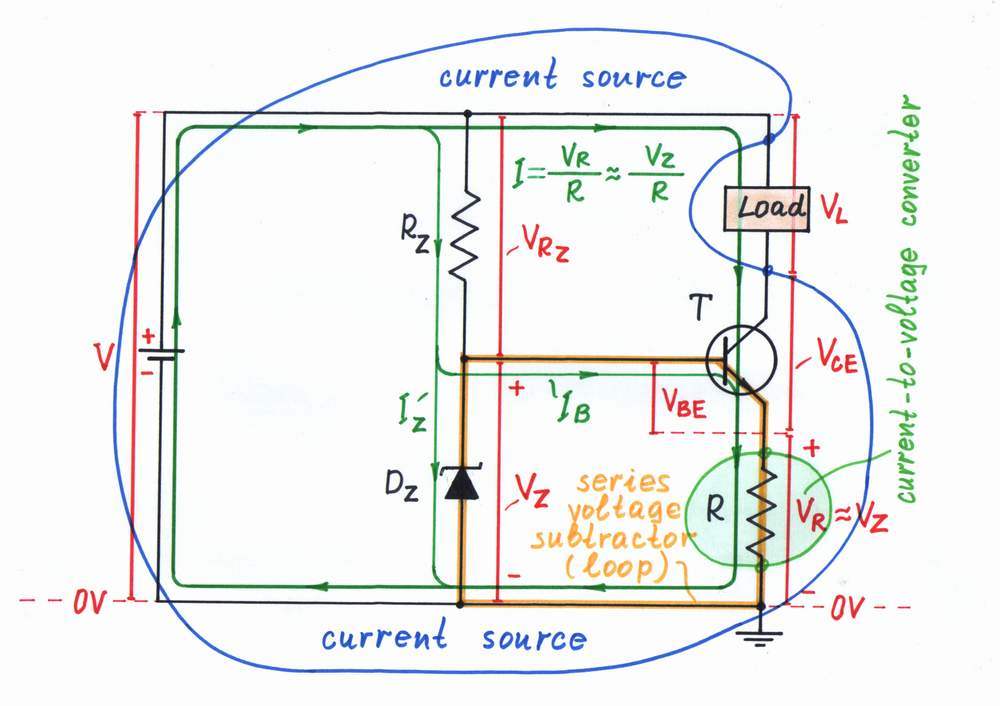 Transistor current source with negative feedback